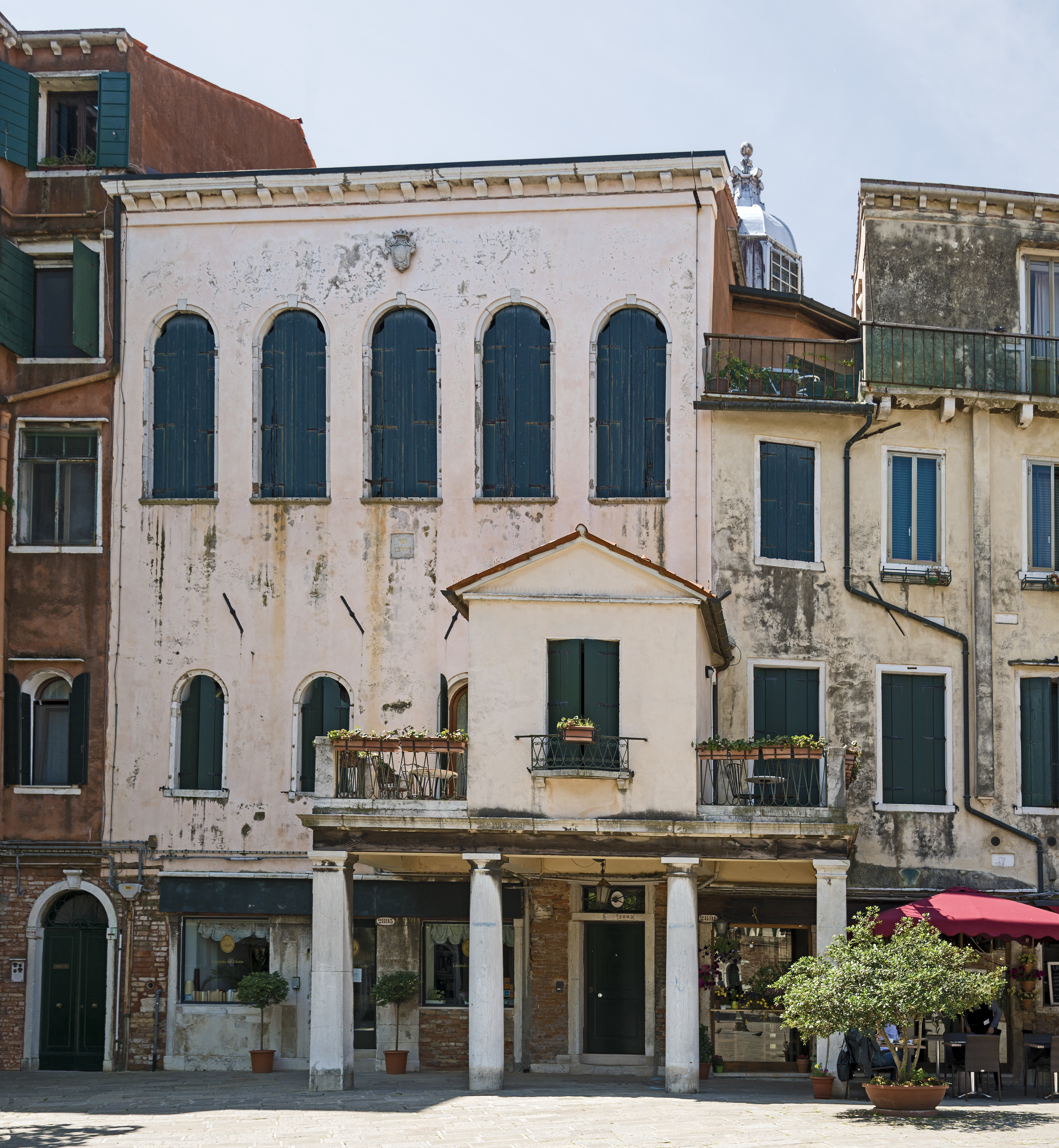 Facade of "Scola Italiana" (synagogue) - Ghetto Nuovo, Venice.